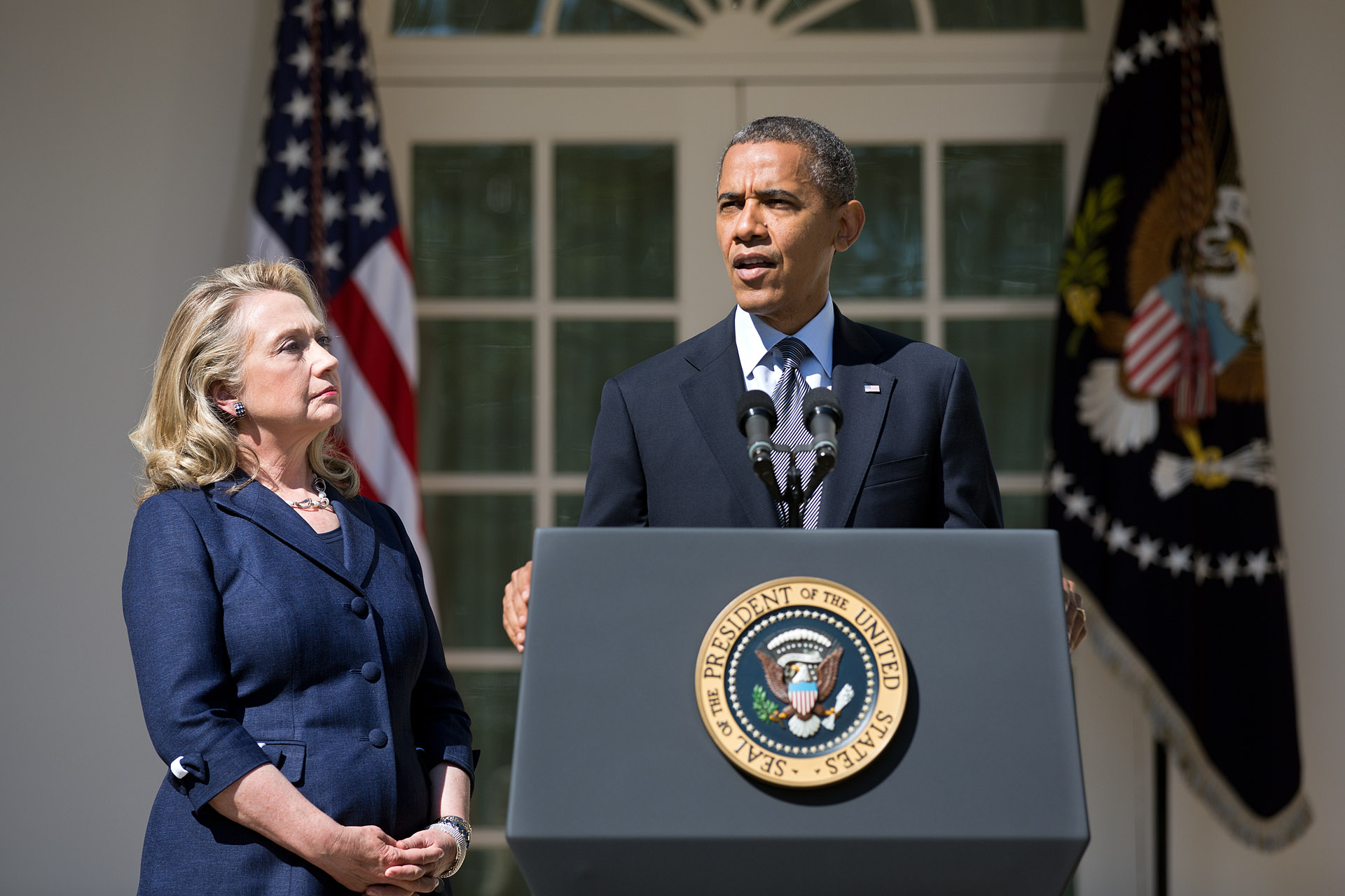 President Barack Obama, with Secretary of State Hillary Rodham Clinton, delivers a statement in the Rose Garden of the White House, Sept. 12, 2012, regarding the attack on the U.S. consulate in Benghazi, Libya.